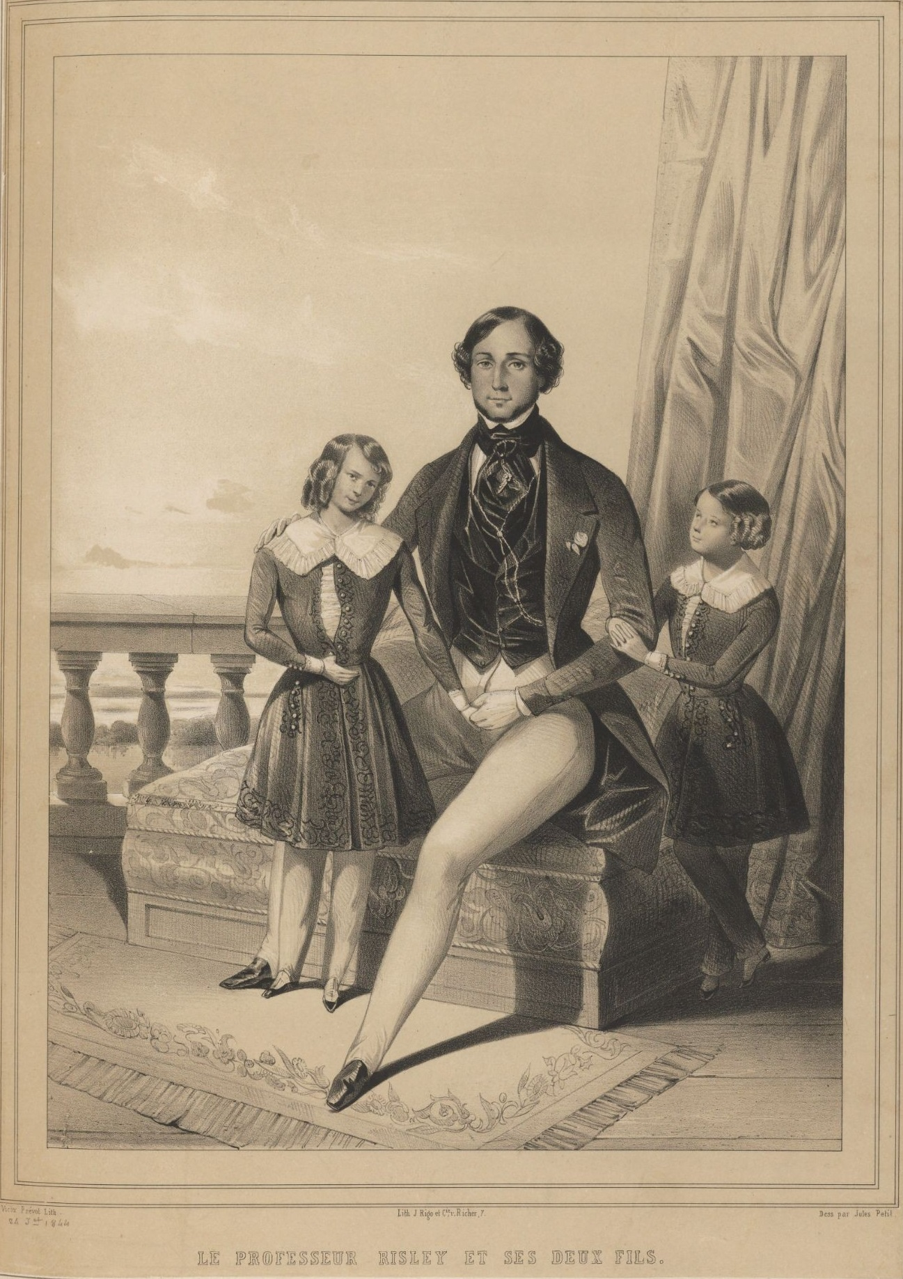 "Professor Risley and His Two Sons"